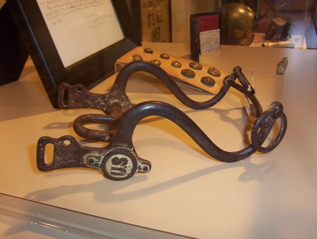 Photo of a bridle bit found at Fort Pillow in the Tipton County Museum in Tipton County, Tennessee. I made the photo myself, feel free to use it.